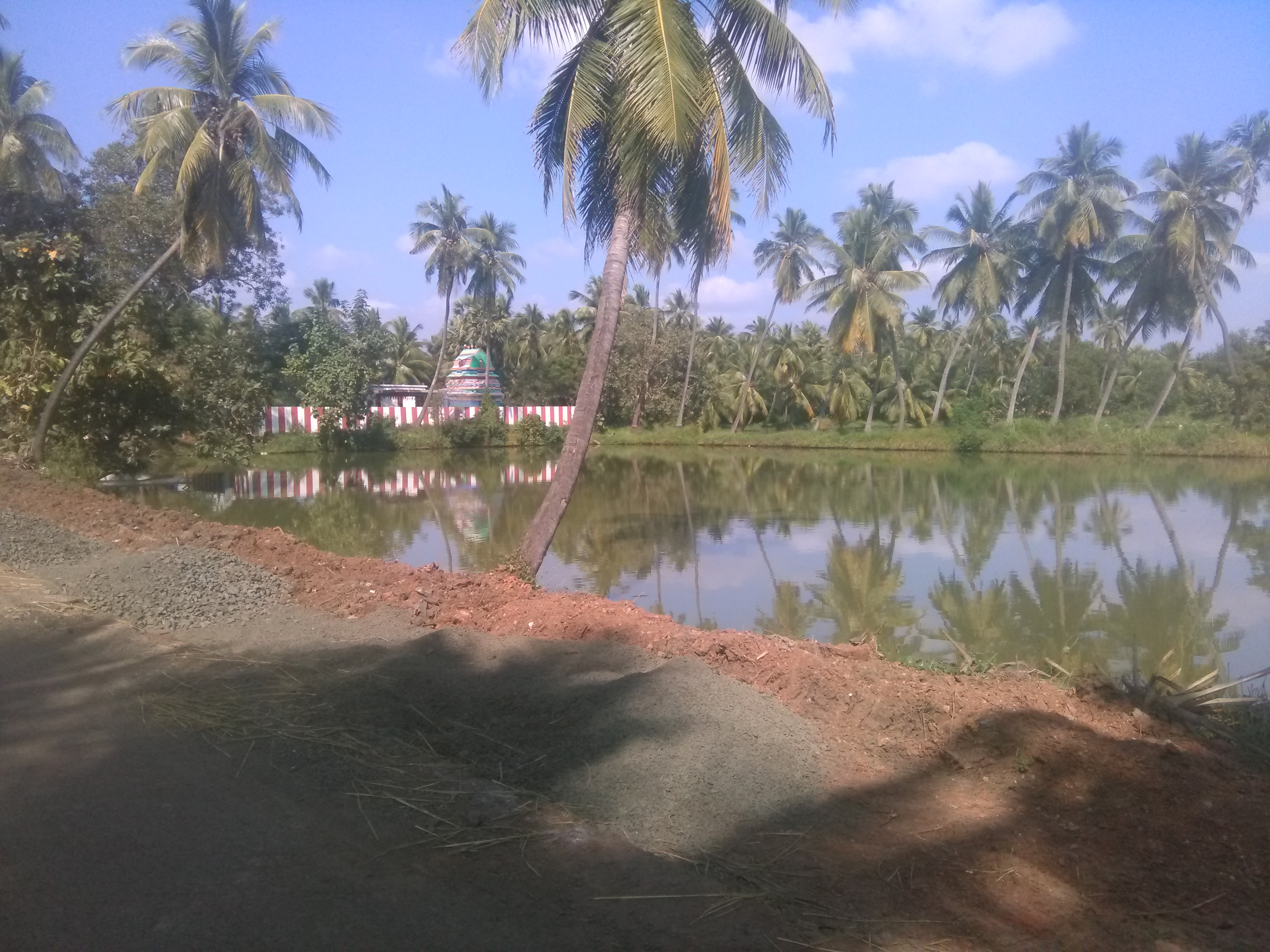 A.P Village Chinamallam Panchayat office